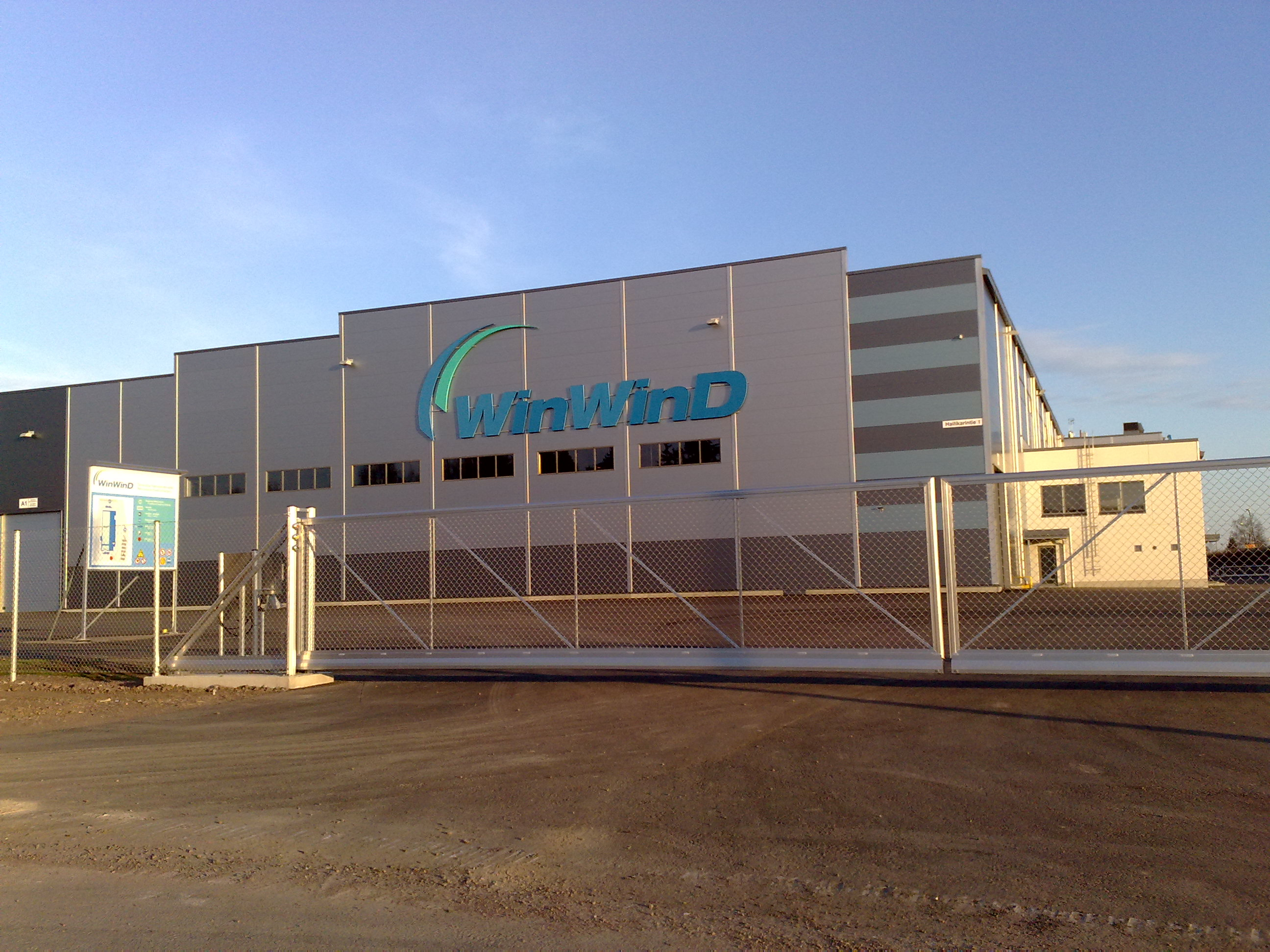 WinWinD windmill factory in Hamina, Finland.